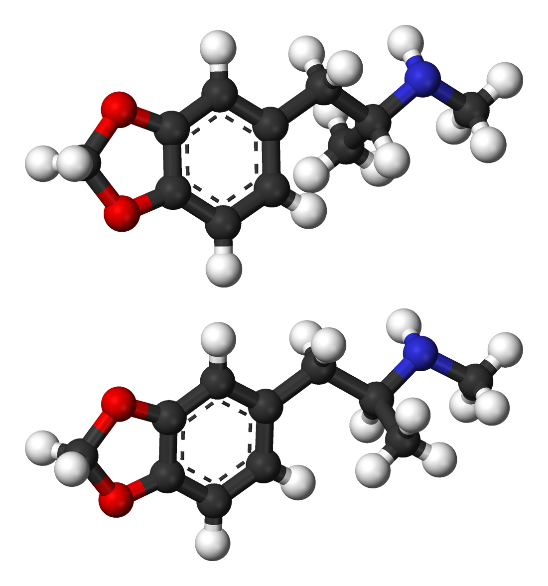 Top R-(-)-MDMA, bottom S-(+)-MDMA